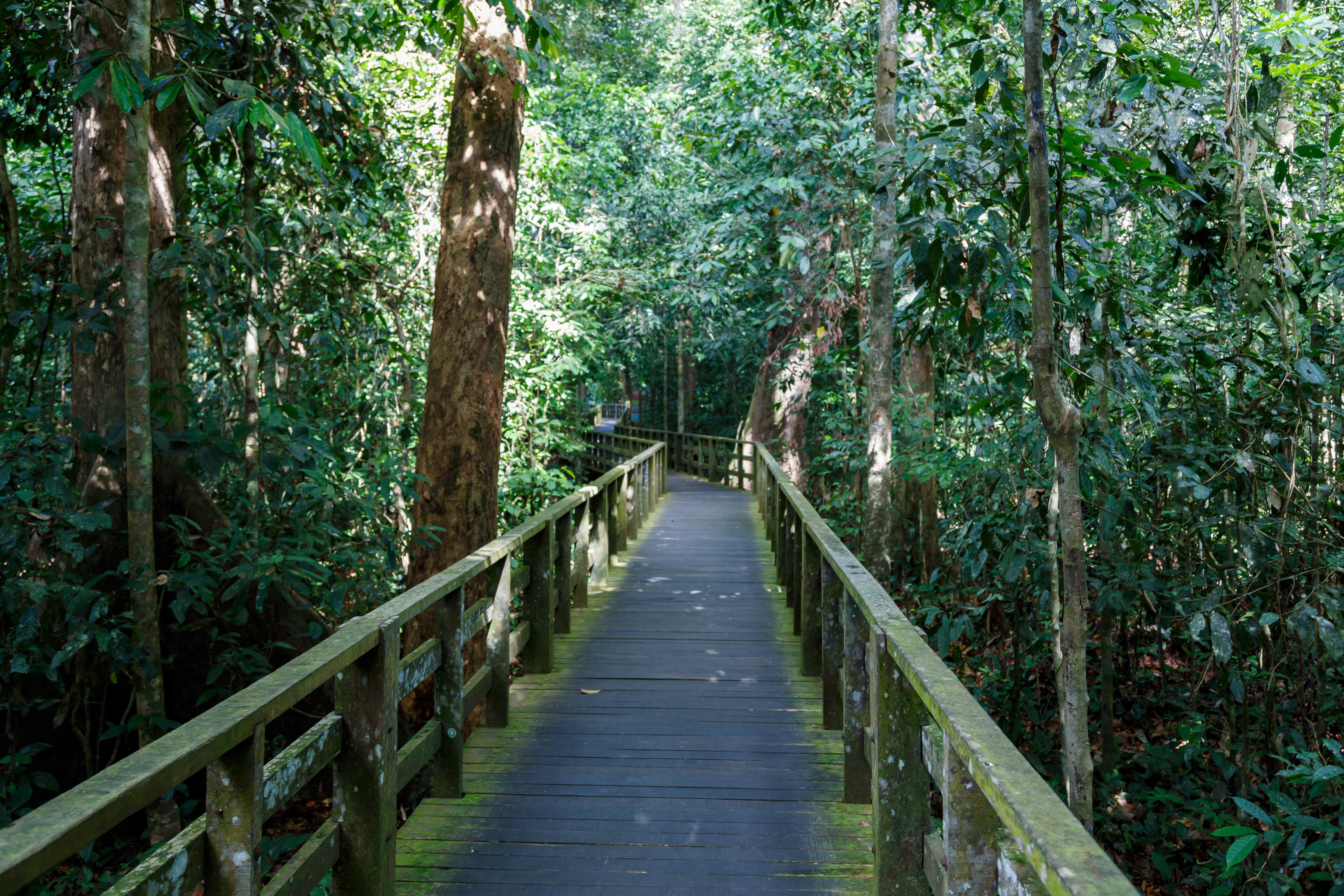 District Sandakan, Sabah: Walking trail at Sepilok Orangutan Rehabilitation Centre